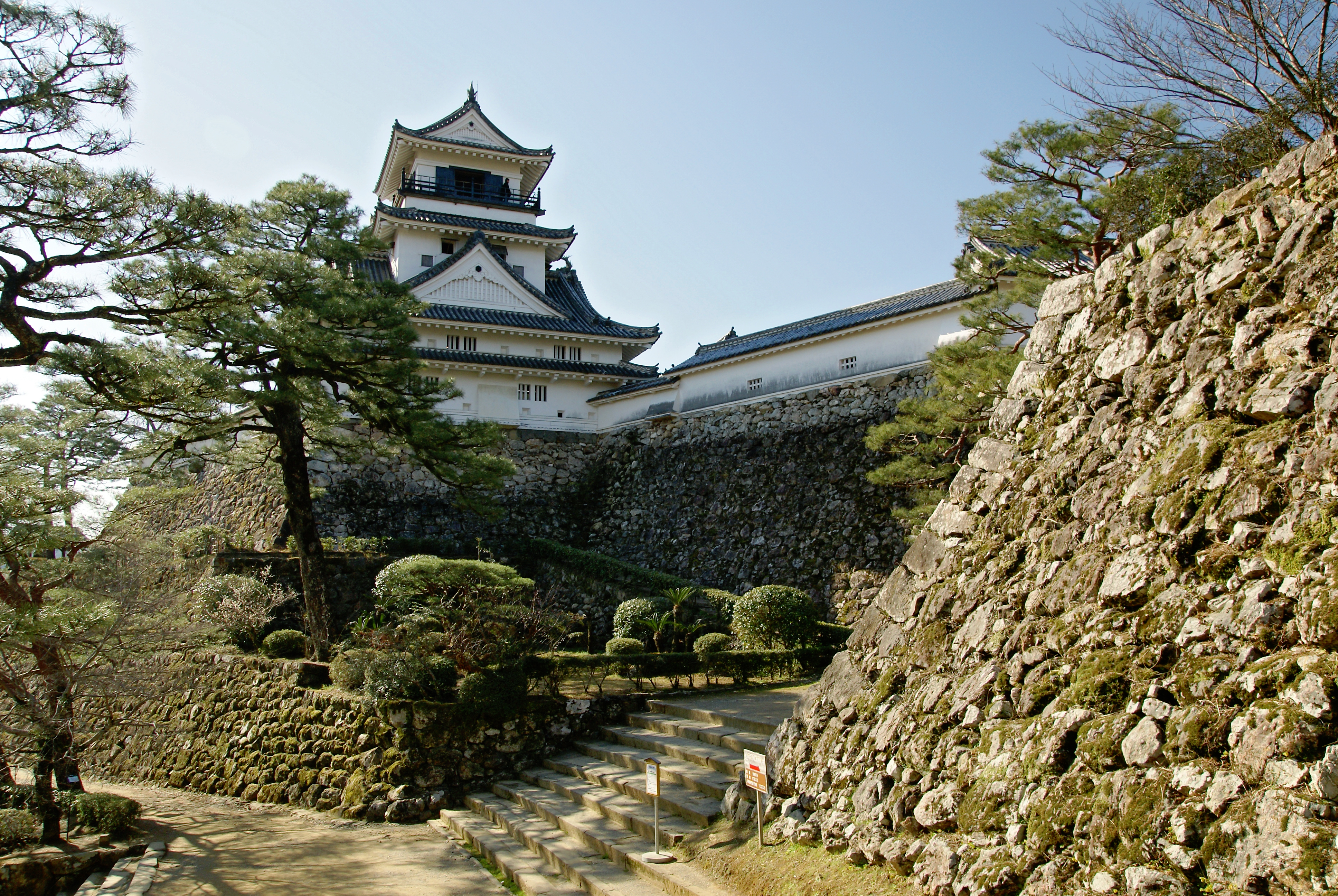 Kochi Castle in Kochi, Kochi prefecture, Japan